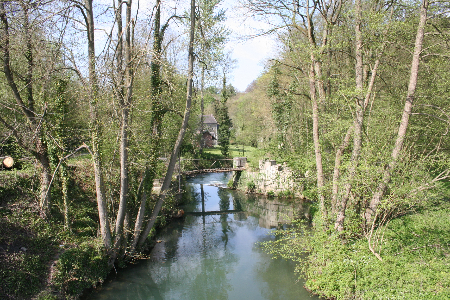 Modave (Belgium), the Hoyoux river in the "Pont de Bonne" hamlet.